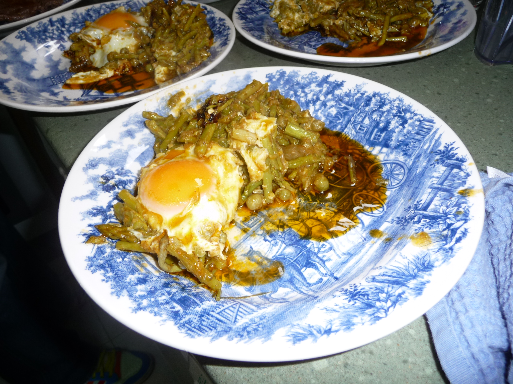 Fried egg over asparragus